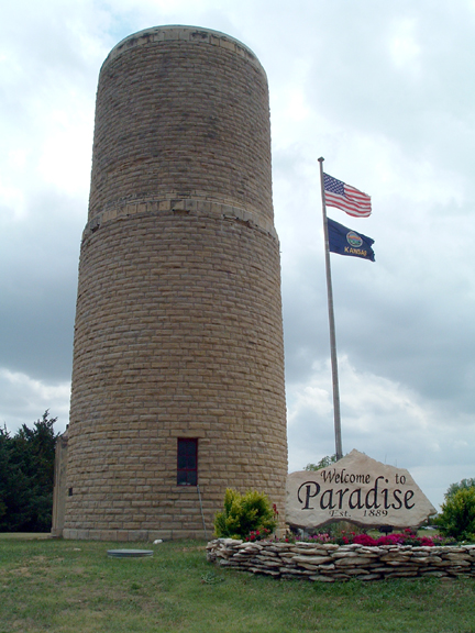 Photo by Devin Strecker 2005, Public Domain